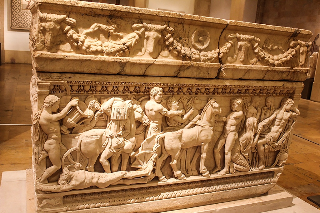 Sarcophagus with the legend of Achilleus, marble Tyre, 2nd c. A.D. Scenes from the Iliad representing episods of the Trojan war.